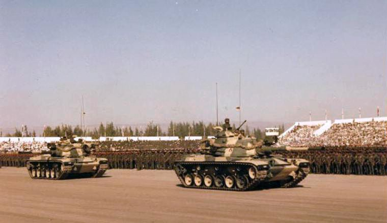 The M60 on the left is saluting HM The Sultan by rotating its turret and depressing the main armament [ as one would with a sword ] when 'marching past' the saluting base.